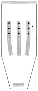 Graphic for the Nine bowls game of Gaubea